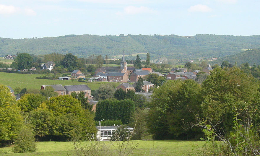 View of the village of Hour, in Houyet commune. Photograph taken by David Edgar on 25th September 2005.